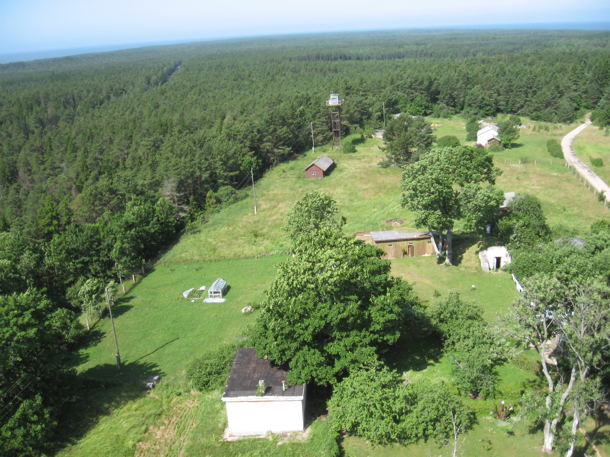 View from Kõpu lighthouse. Hiiumaa, Estonia.